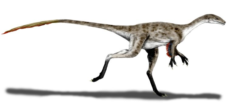 Coelurus fragilis, a coelurosaur from the Late Jurassic of North America, pencil drawing, digital coloring